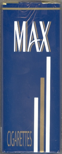 New Max 120's packaging as of June 2010